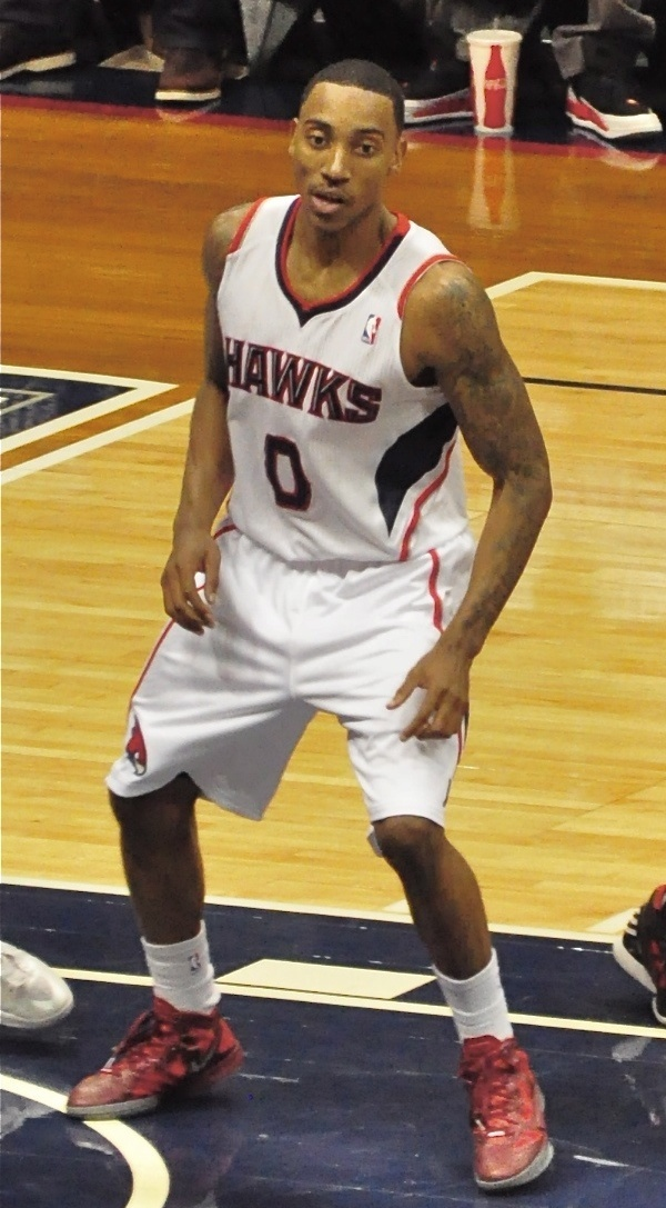 Jeff Teague of the Atlanta Hawks